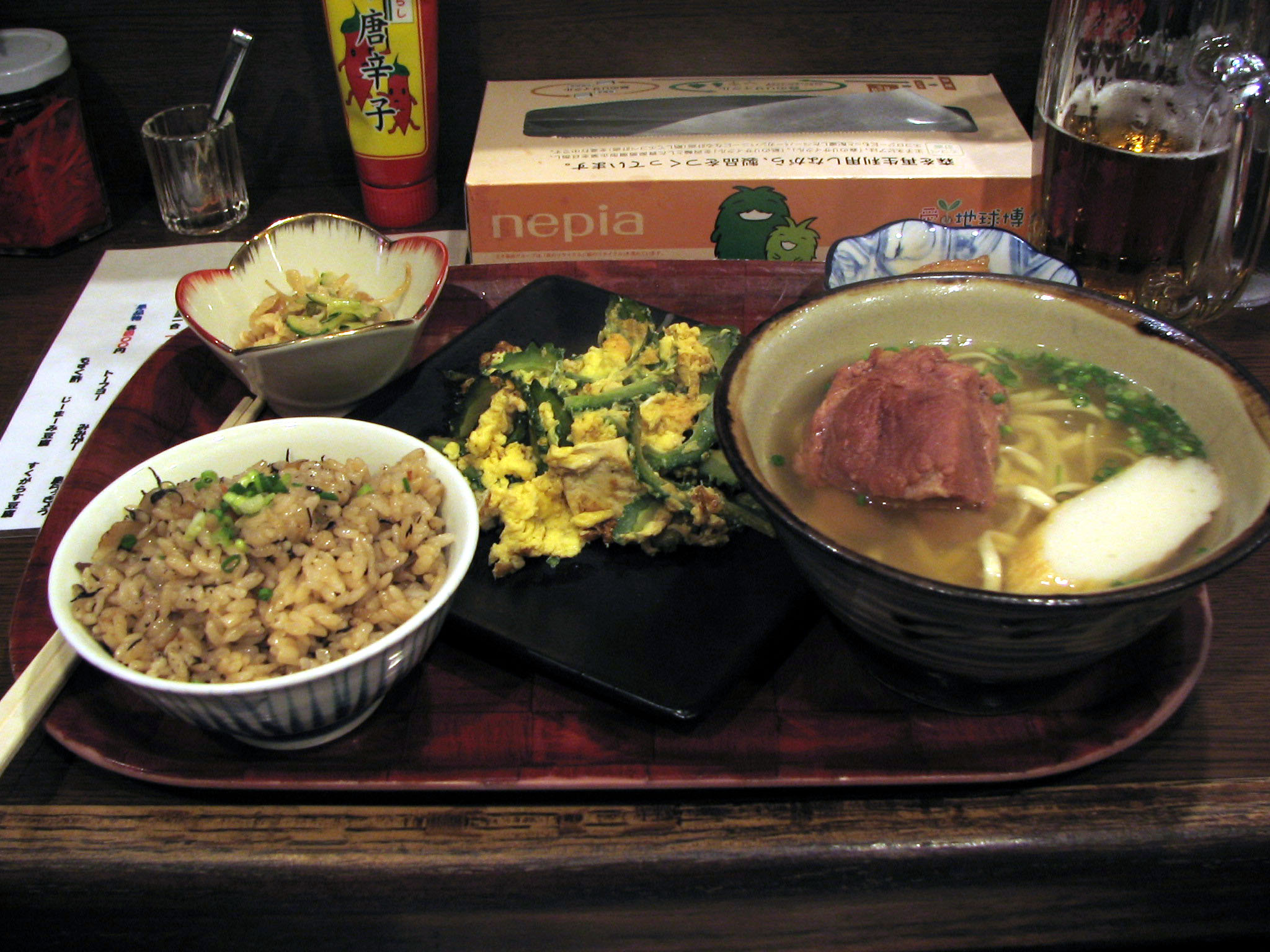 Makishi-Shokudo is a small Okinawa cuisine restaurant in the back street near the Kokusai-Dori street in Naha, Okinawa, Japan. Every dish and bowl on the tray was reeeeally tasty.